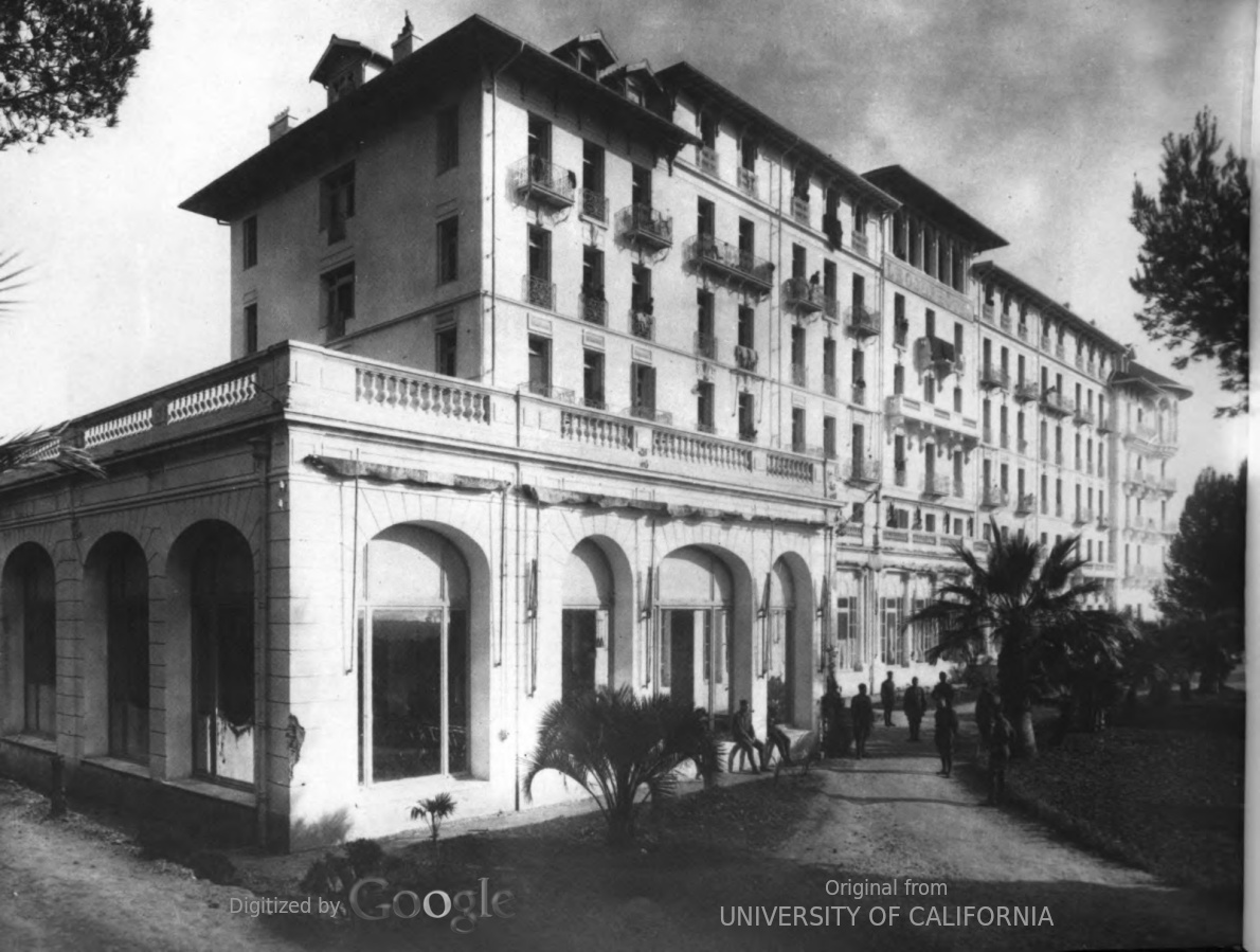 Caption: Le Golf Hotel Hospital Center, Riviera. Group 1, Hyeres. The nine hotels had a total capacity of 3,600 and were titled the Convalescent Hospital No. 1 but when Base Hospital NO. 99 arrived on November 26, 1918 its title was changed to "Base Hospital."